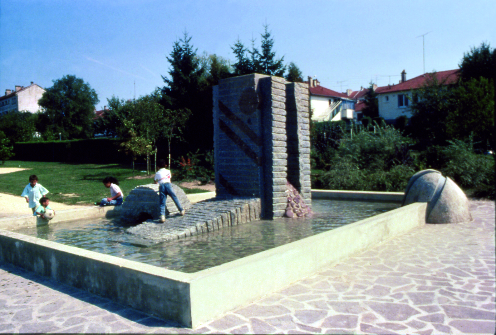 Tetsuo Harada sculptor. Public commission, realization of “Fountain”, H 300, basins 800 x 600, made of grey granite encrusted with pink granite, pebbles. Totems H 300, placed in the City neighborhood des Vertes Voyes in Sainte Menehould, Champagne region. Organized by the Ministry of Education and the City of Sainte Menehould. The fountain will create the link between the old and new city neighborhood. The city of St. Ménéhould has a remarkable architectural know mixing brick with clear limestone. Located near the vocational school, the fountain is encrusted pink granite recalling the local style. Water flows from the top of granite columns and slid into the basin. Very shallow, it serves mainly to give more transparency to the work and to reflect the sky, clouds or the stars. The arrival of this sculpture has completely changed the use of this place that is now commemorative and well equipped. Competition "1%" of the Ministry of National Education and the municipality of Saint Ménéhould.